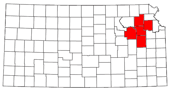 Locator map of the Topeka Metropolitan Statistical Area in the eastern part of the U.S. state of Kansas.